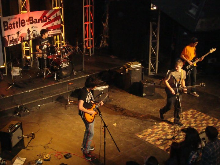 The band Gatling playing live February 26, 2011 in Burlington, Ontario, Canada.